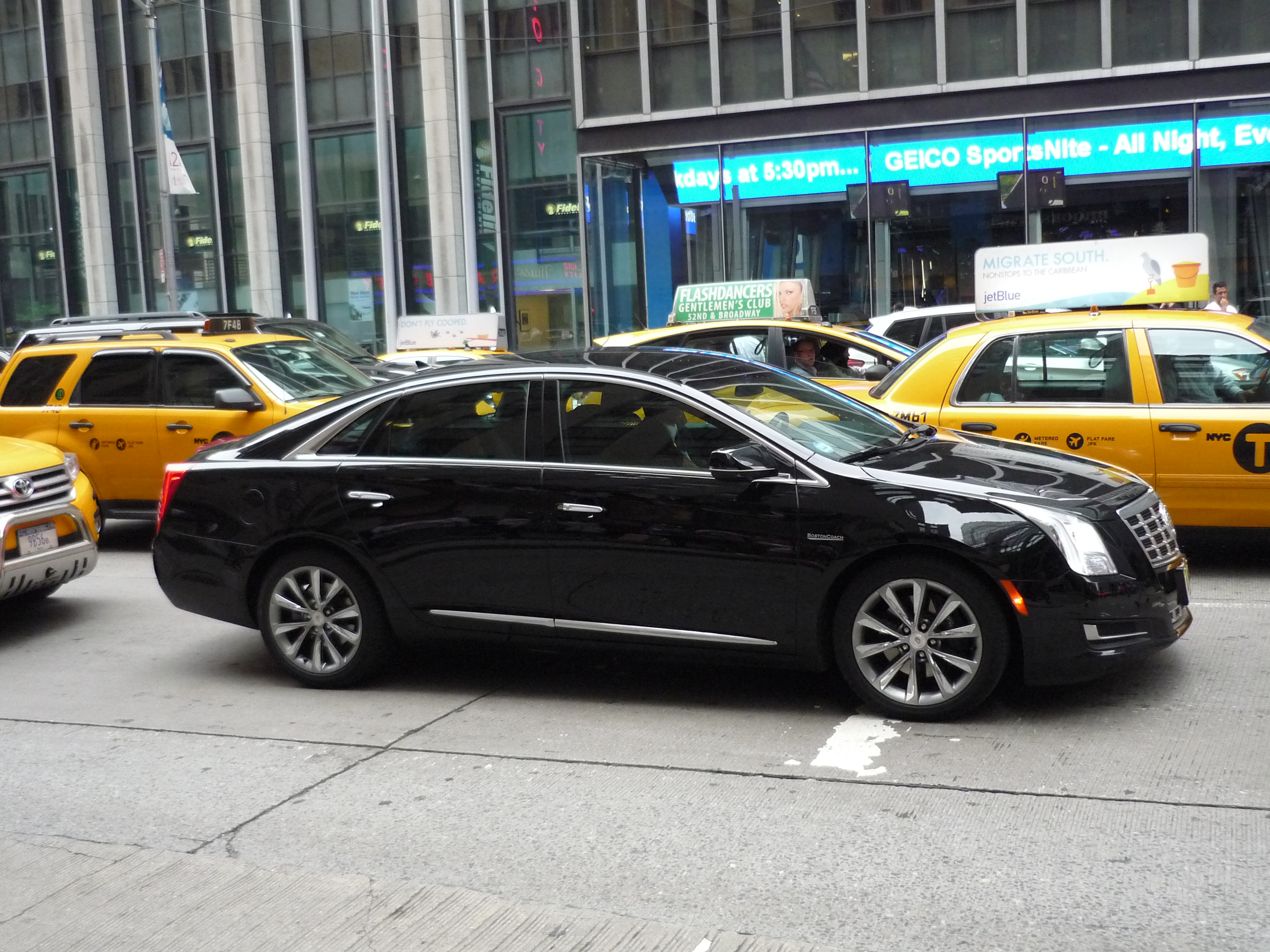 The XTS has become a fairly popular livery car, though I've heard some drivers complain that they don't offer the kind of space the dearly departed Town Car once did. I like them, though.